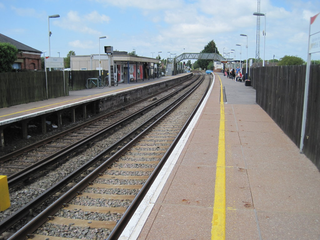 Wool railway station, Dorset. Opened in 1847 by the Southampton & Dorchester Railway. View west towards Dorchester and Weymouth.